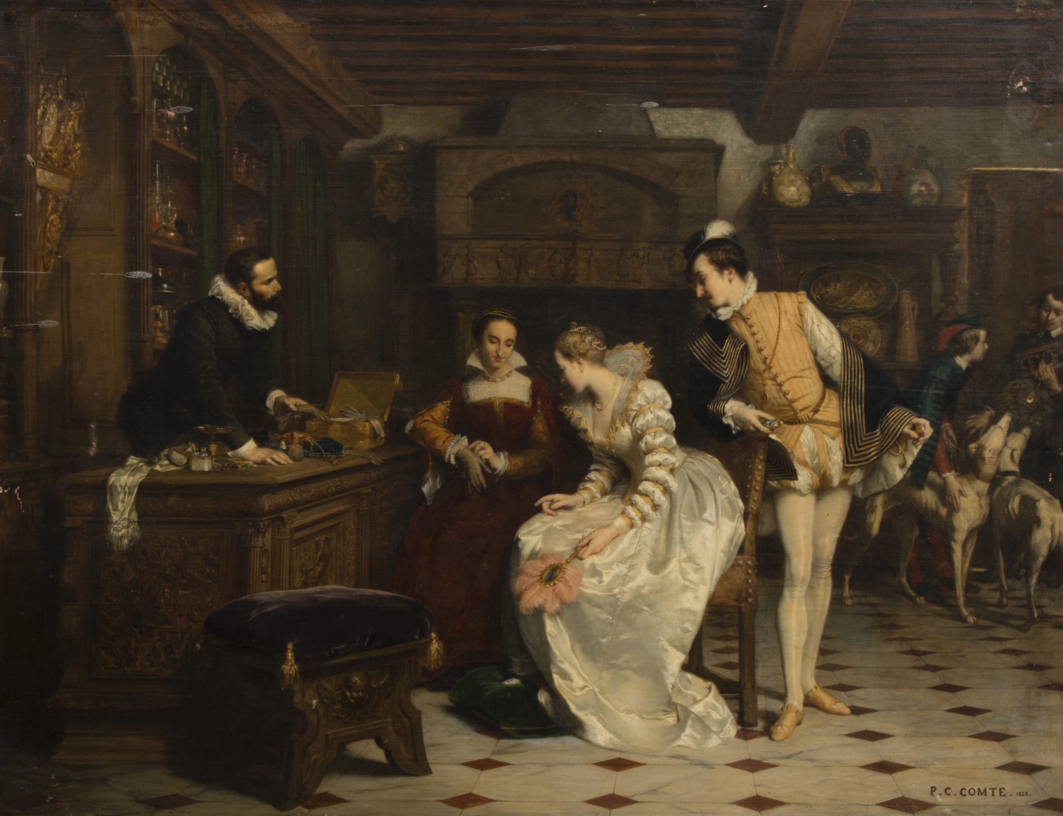 Jeanne III of Navarre Buying Poisoned Gloves from Catherine de Medici's Parfumeur, René by Pierre-Charles Comte. Sign. "P. C. COMTE 1858". A painting of this title by Comte was exhibited at the Salon of Paris in 1852 (#280)